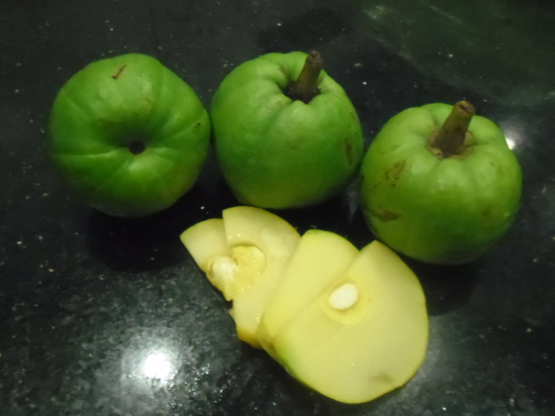 Fruits of a plant named in 'Garcinia cowa' family Clusiaceae